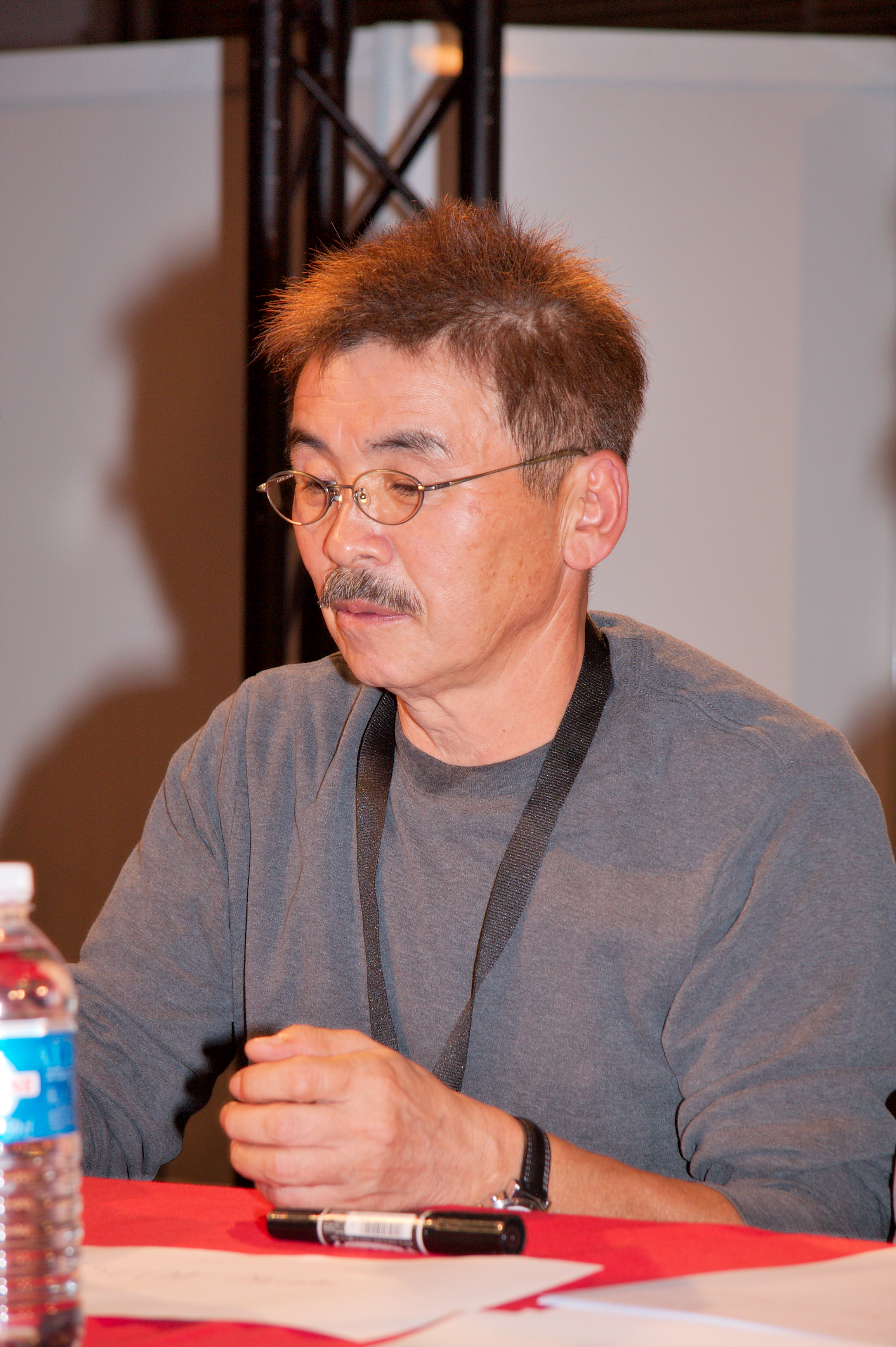 Autograph session with Masami Suda at Chibi Japan Expo 2007 (Paris, France).